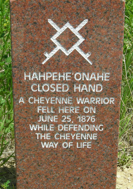 Marker stone at the Little Bighorn Battlefield, Montana.